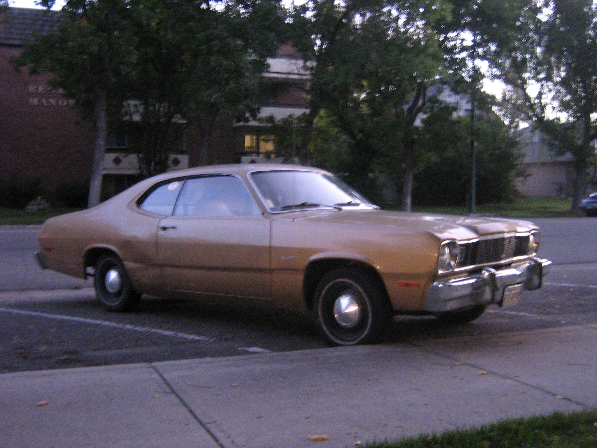 Plymouth Duster just like Al Bundy had.